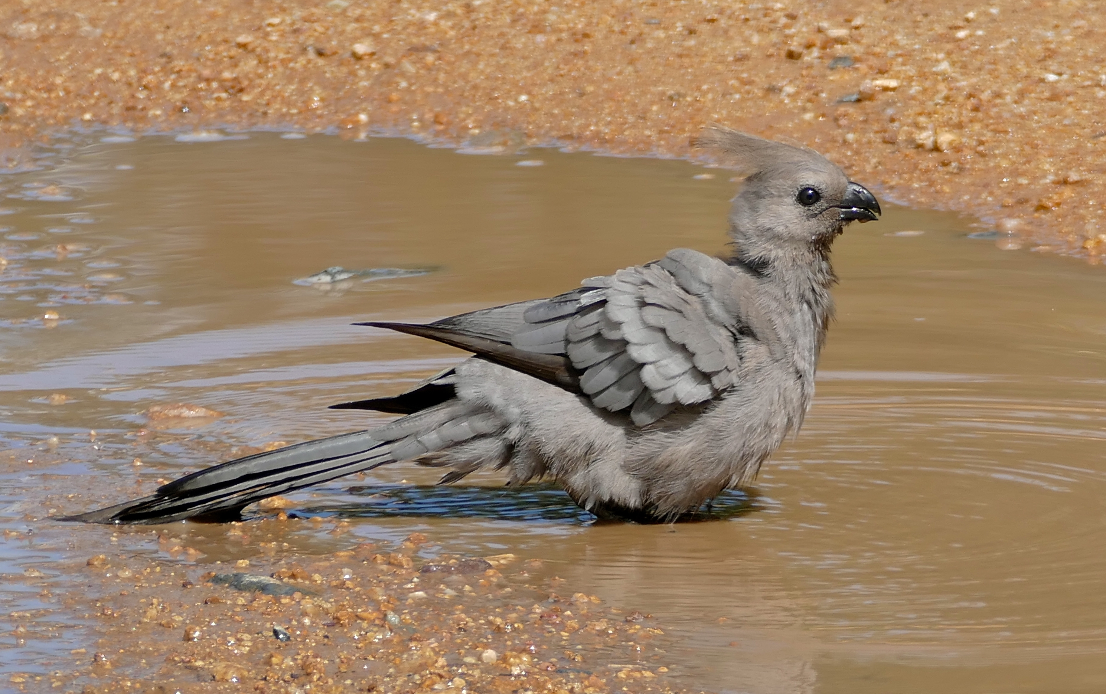 S22 Road South of Skukuza, Kruger NP, SOUTH AFRICA